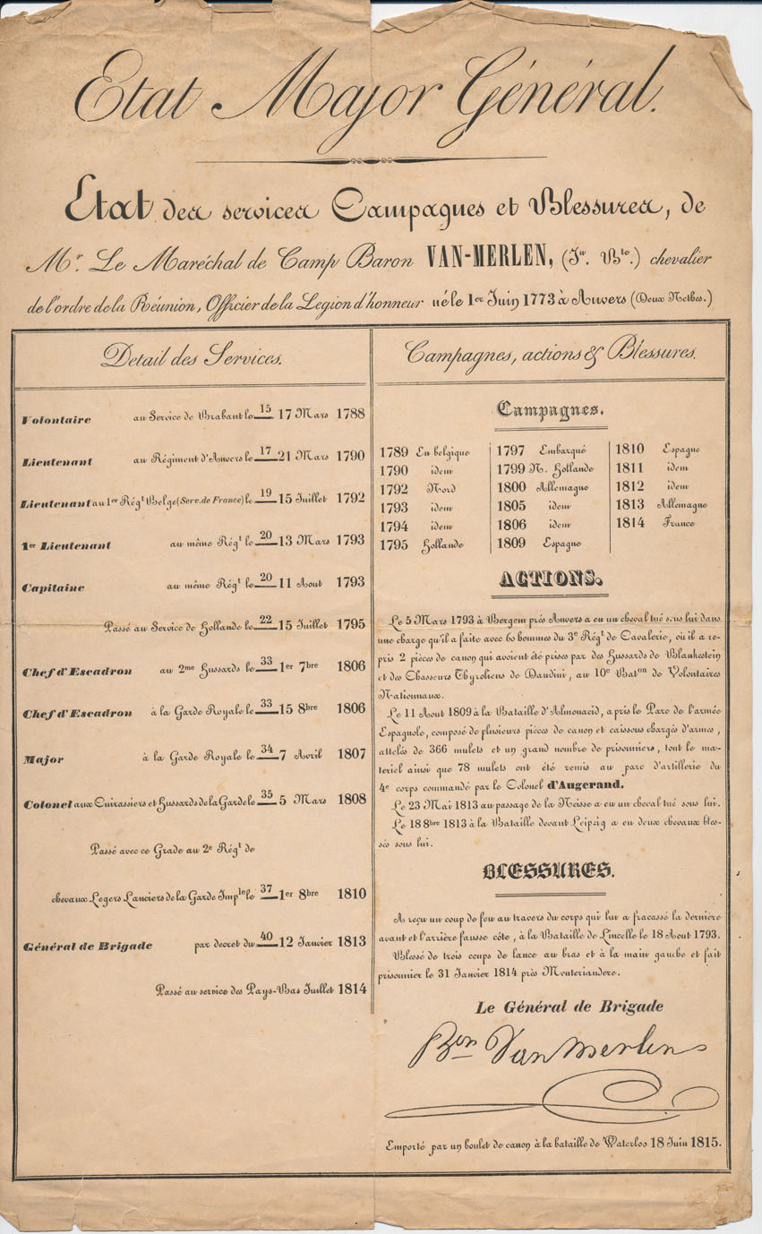 summary